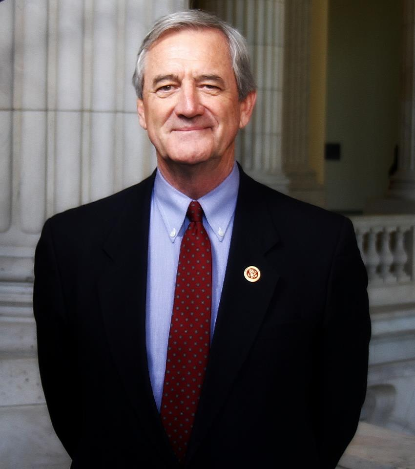 U.S. Representative from Minnesota Rick Nolan.